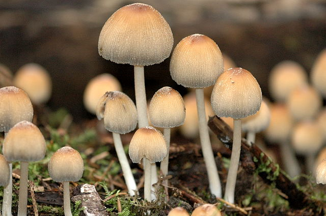 Coprinellus micaceus s. l. from Commanster, Belgium. The determination of the species shown in this picture has been verified.